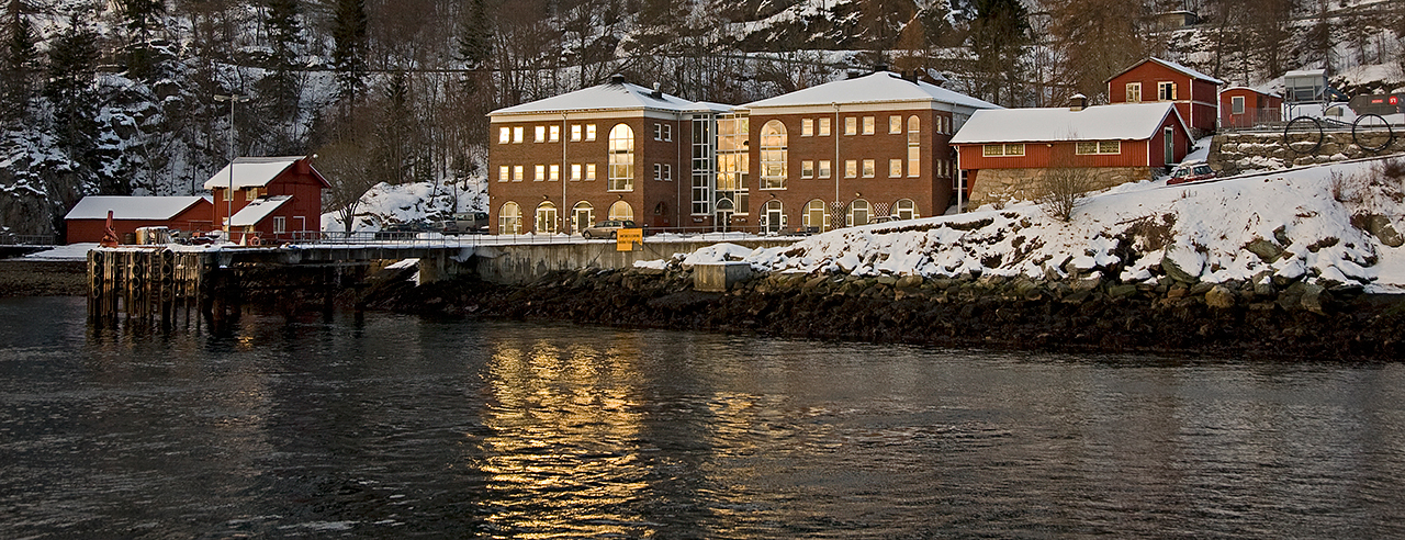 The Trondhjem Biological Station (TBS) is the centre for marine biological research at Norwegian University of Science and Technology (NTNU) in Trondheim, Norway. The TBS research facilities include 600 m2 of wet lab space, 800 m2 of well equipped standard laboratories, and a constant supply of sea water from 100 m depth.